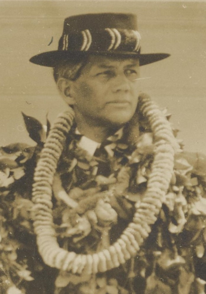 Prince Kuhio Campaign Trail. Congressional visit in 1915. Mayor John C. Lane of Honolulu.